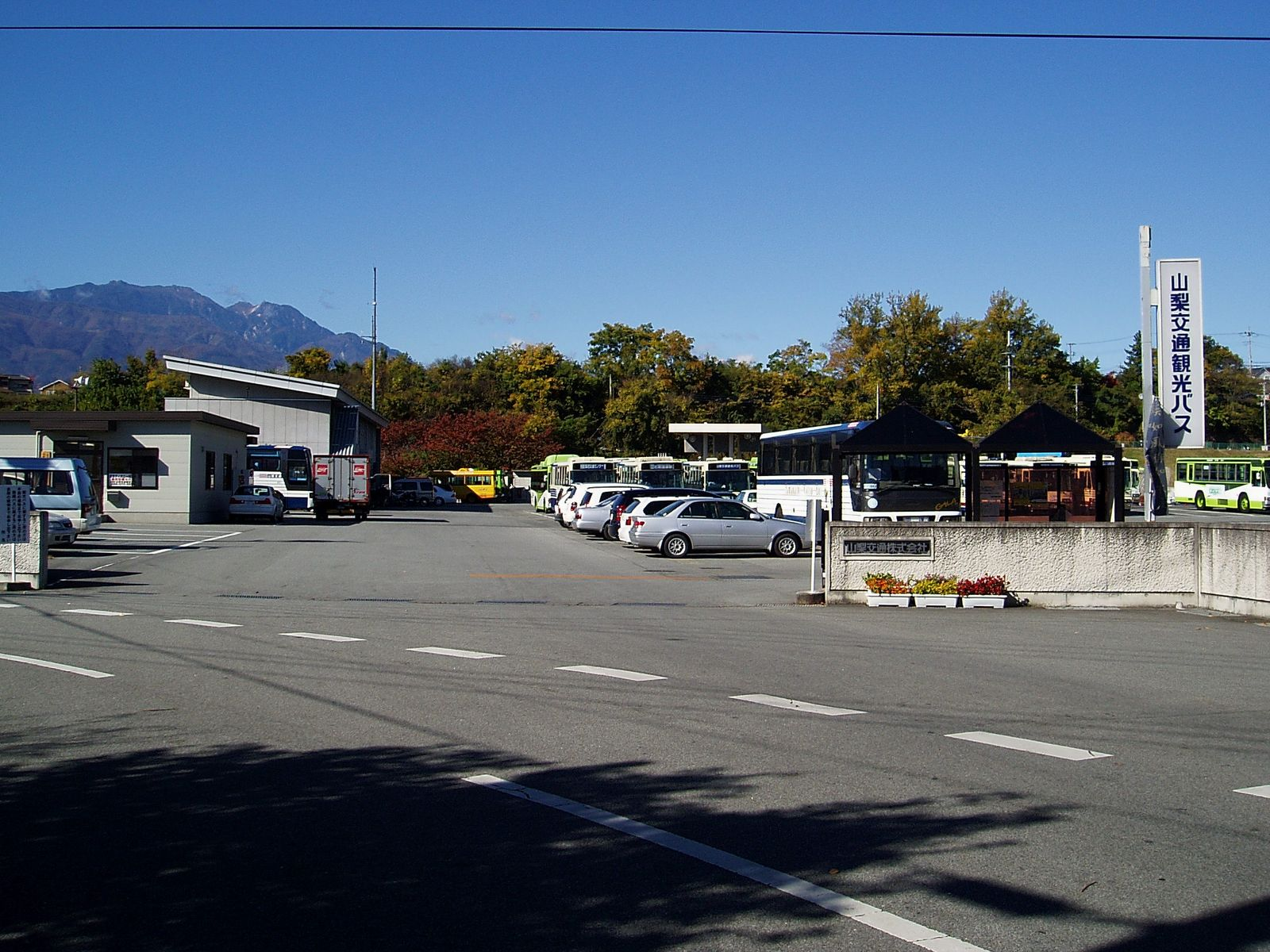 Yamanashi Kotsu Shikishima Depot and Yamako Town Coach Kofu Depot